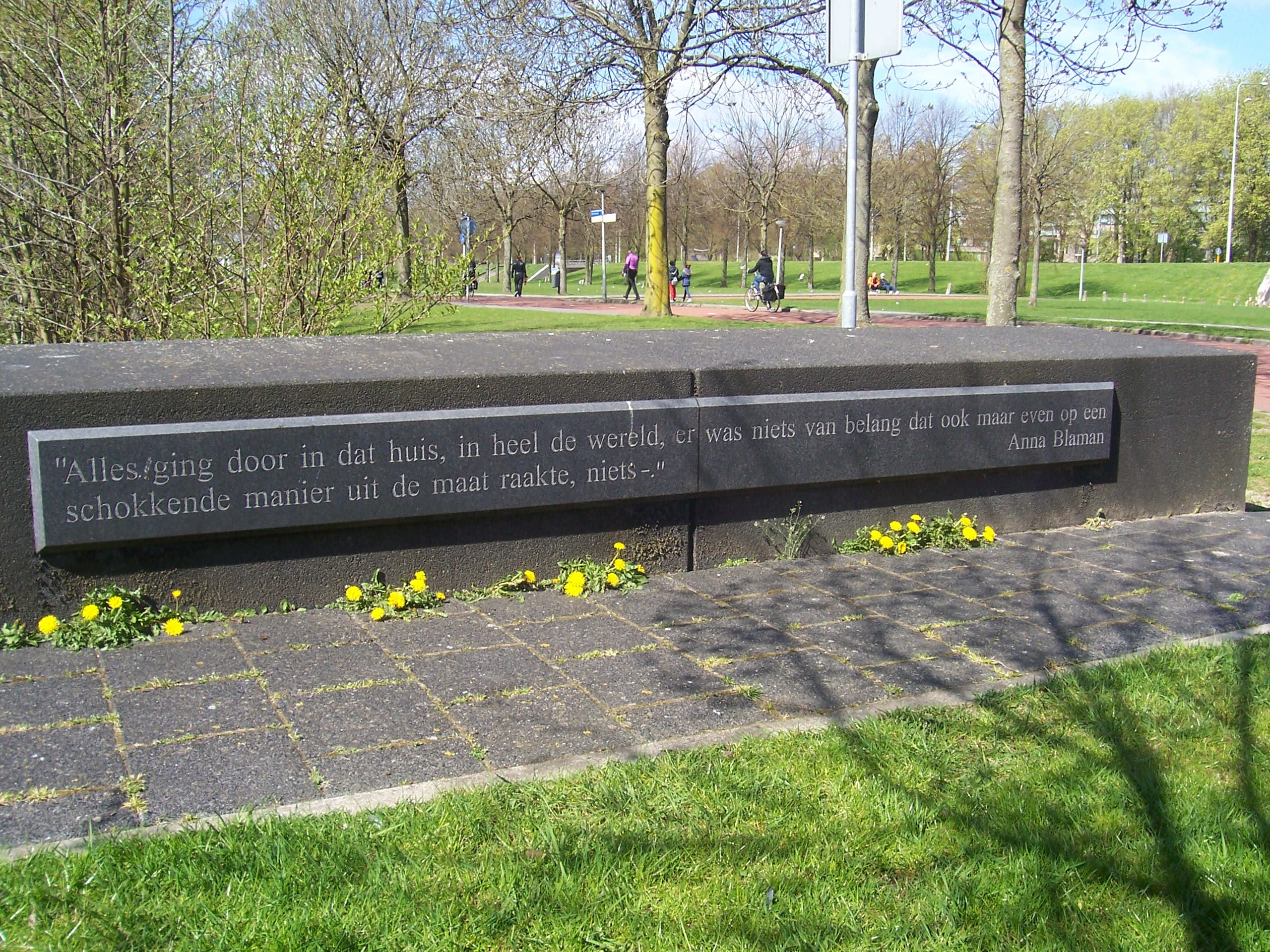 part 2 Wendela Gevers Deynoot; text by Anna Blaman